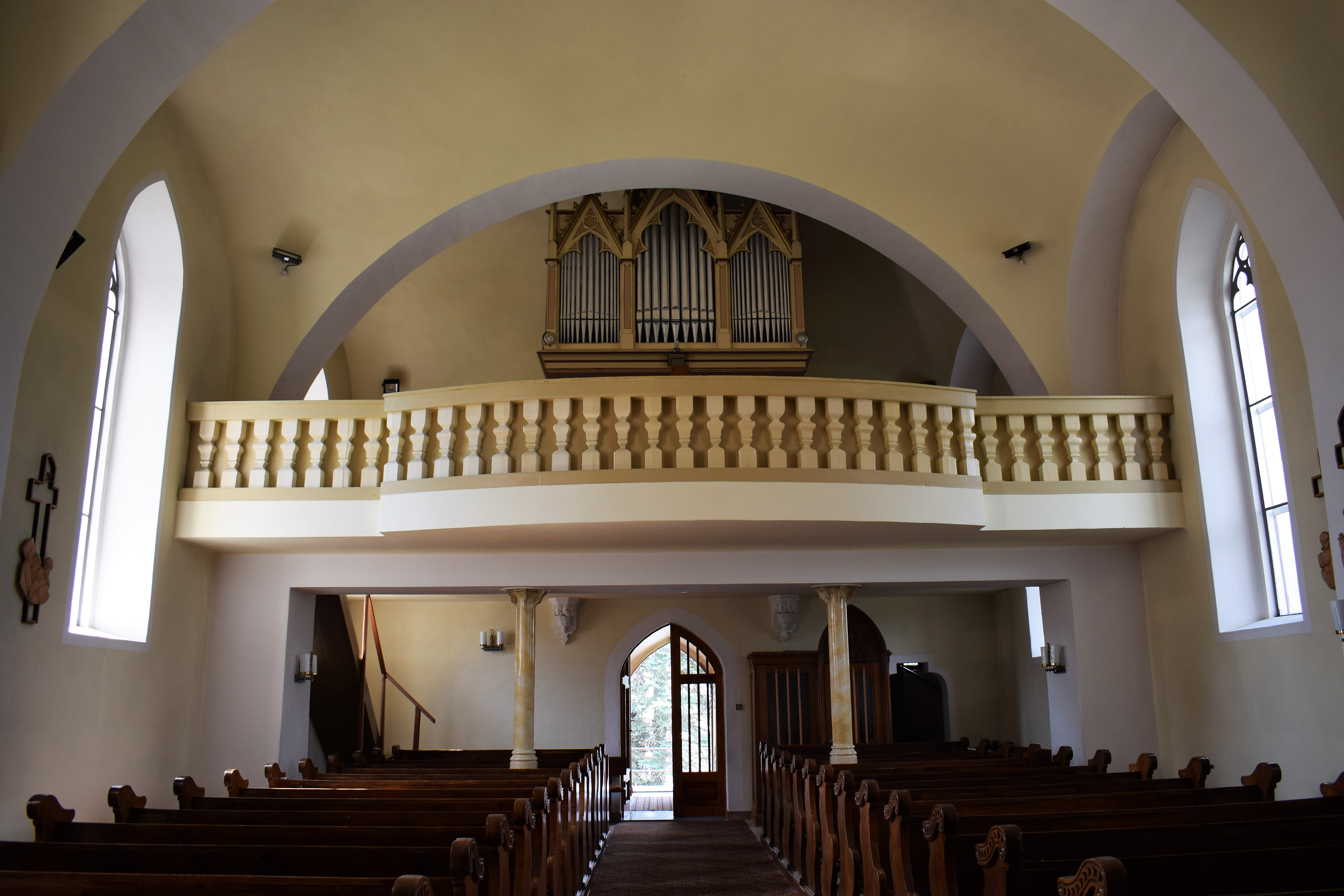 scene of choir in castle Selce